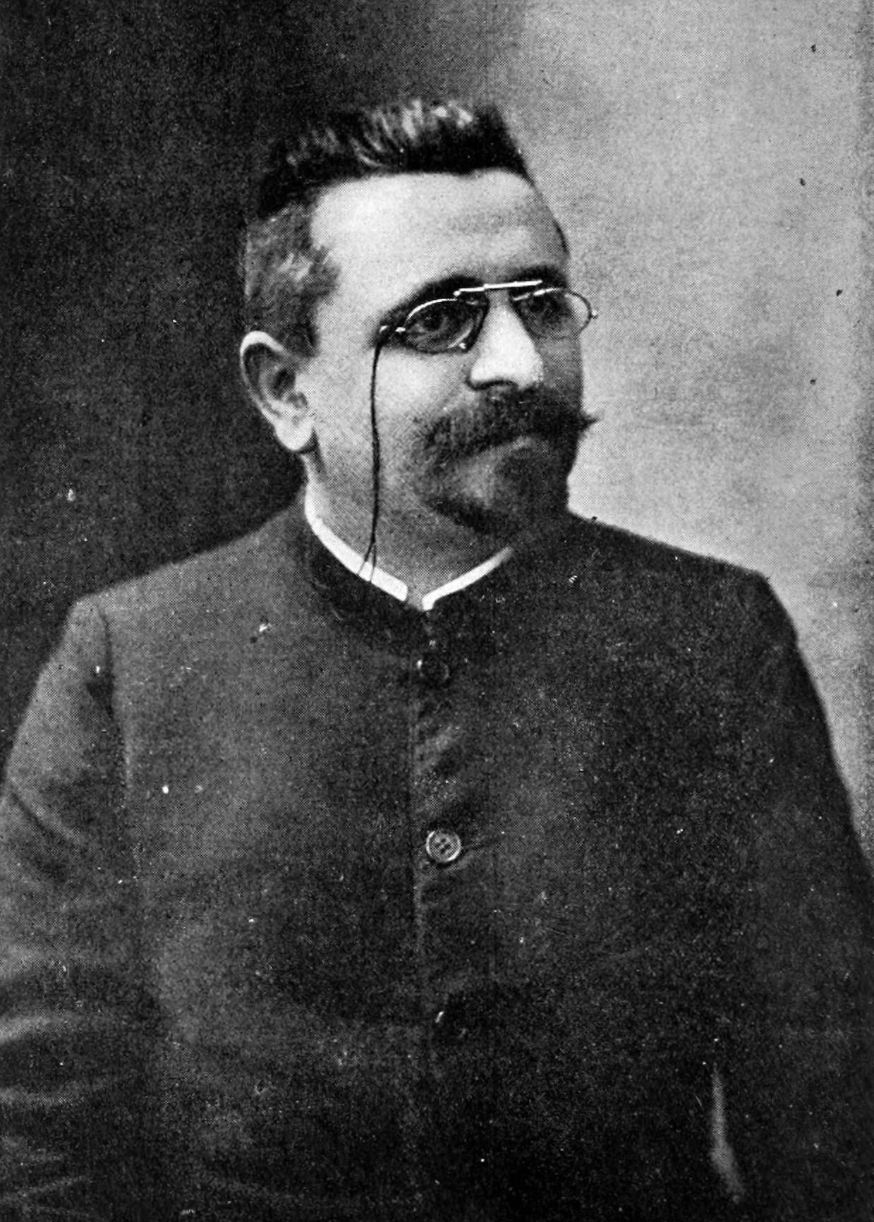 Portrait photo of French politician Gustave Hervé (1871-1944).